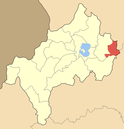 Locator map of Kleisouras municipality (Δήμος Κλεισούρας) at Kastoria perfecture, Greece).